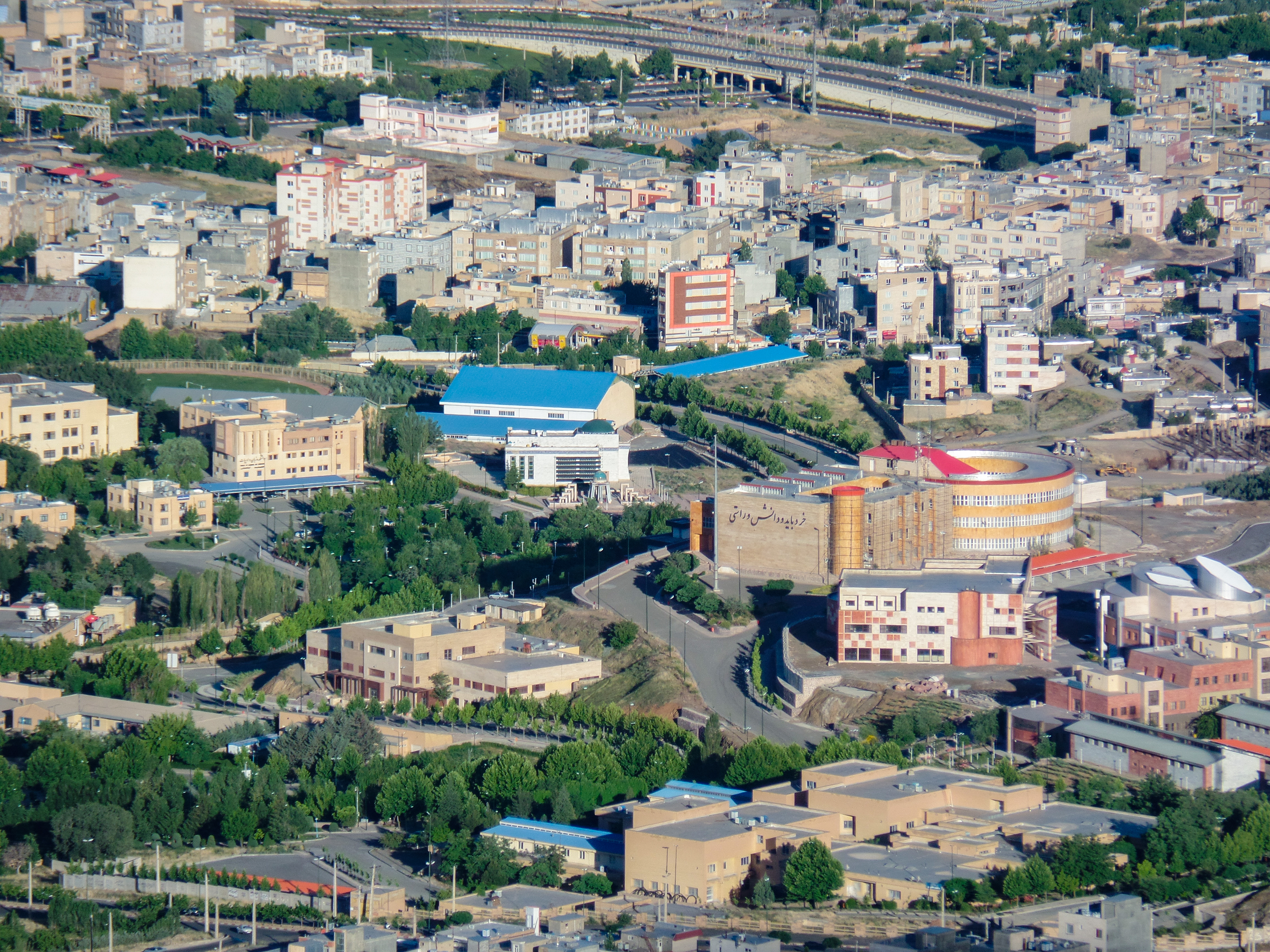 A view from Abidar mountain